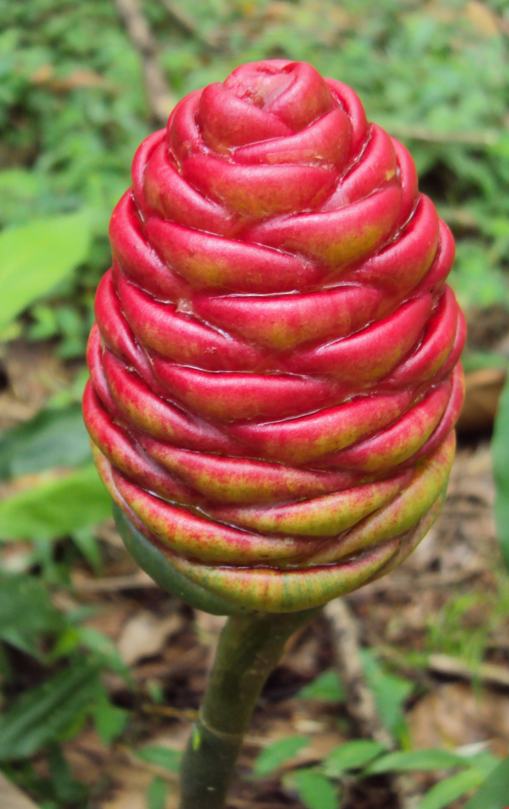 Zingiber zerumbet